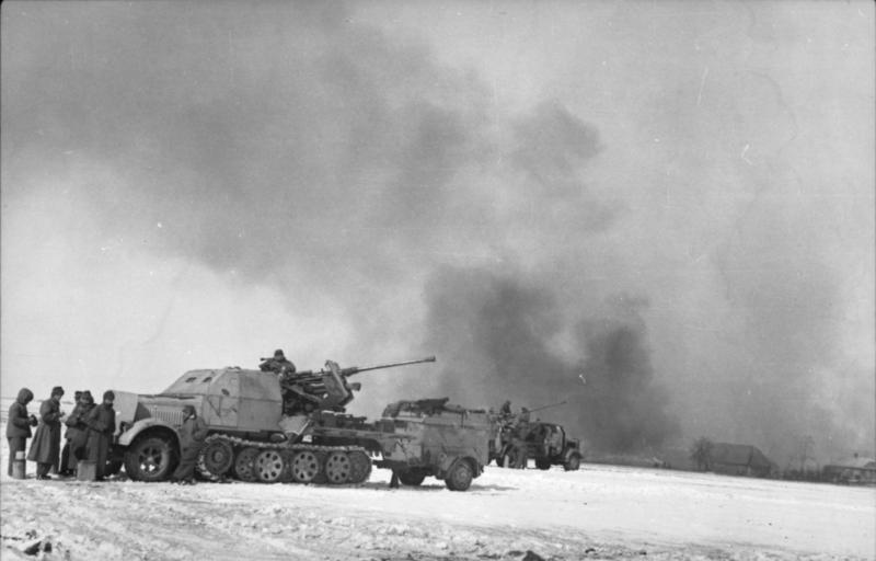 Wrong description, SdKfz-7/2 SPAA gun.